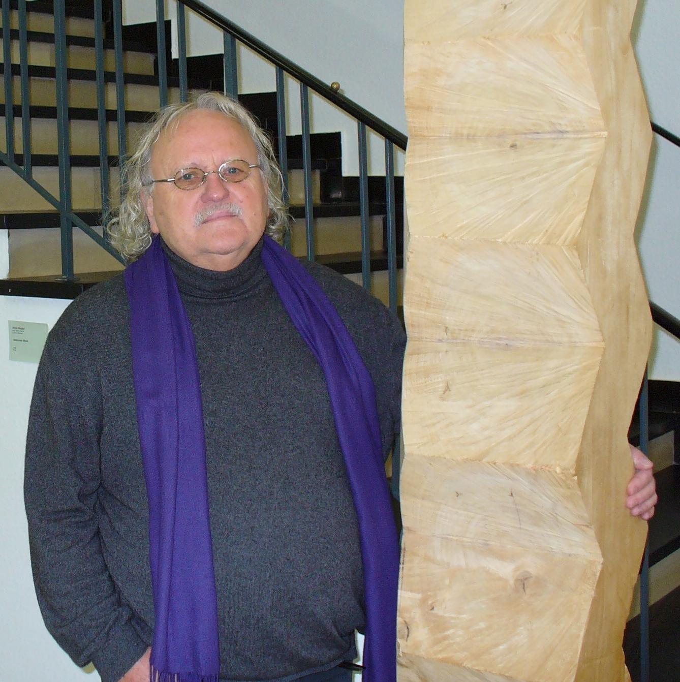 portrait Karl Heinz Essig